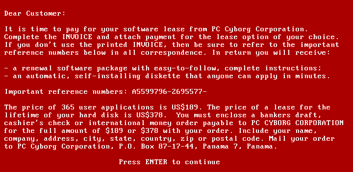 Part of AIDS DOS trojan horse payload.